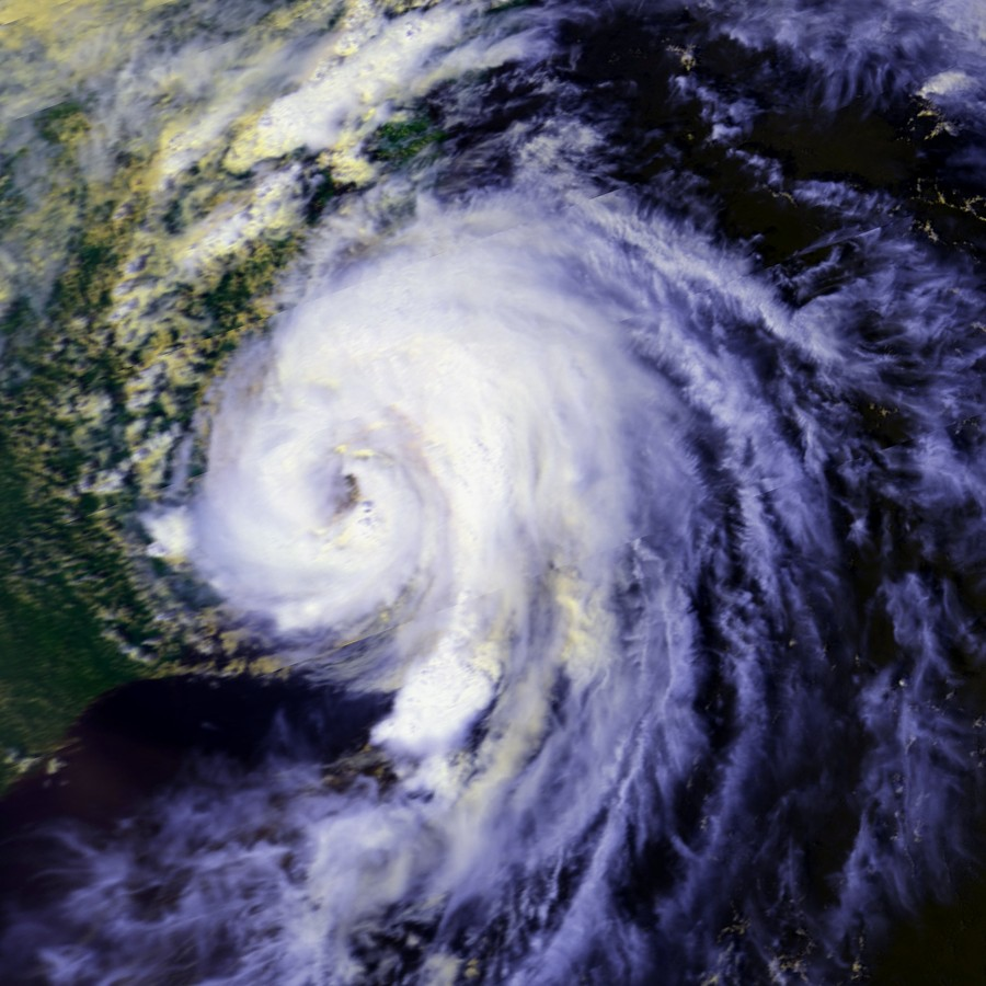 Hurricane Charley on August 17 at approximately 1837 UTC. This image was produced from data from NOAA-9, provided by NOAA.